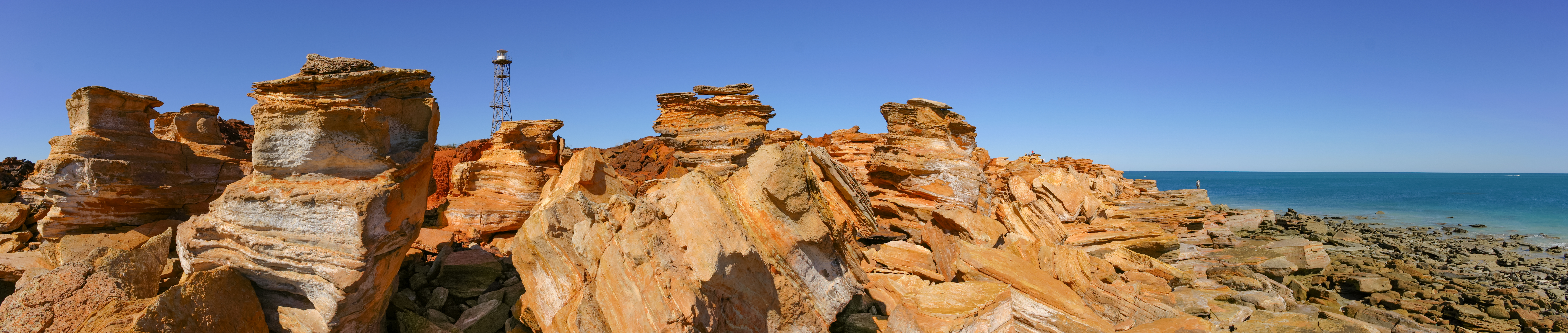 Gantheaume Point, Broome